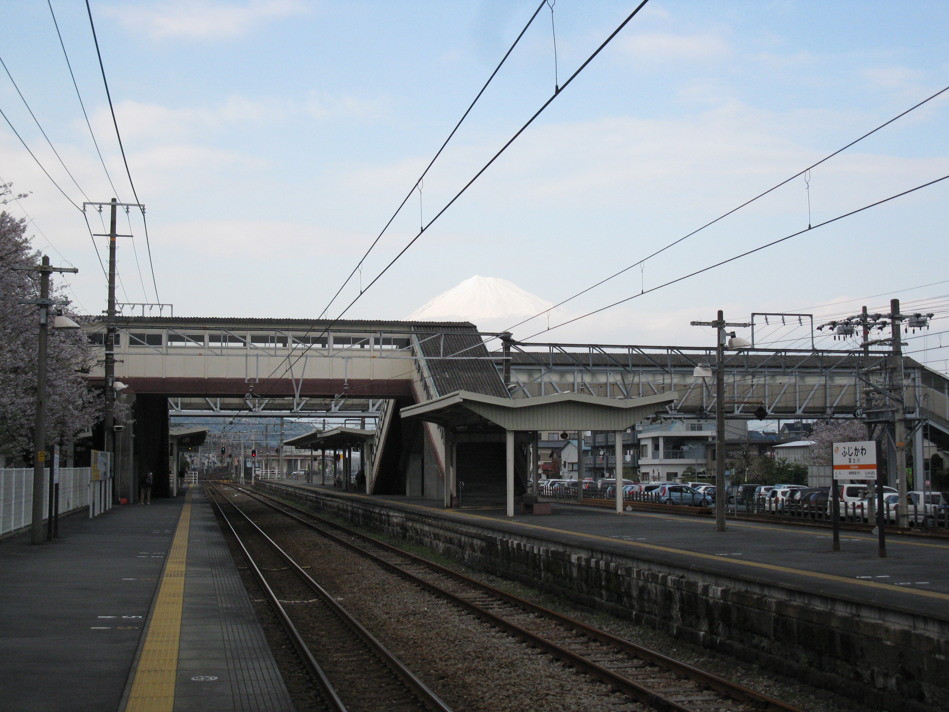 Fujikawa Station platform (Central Japan Railway(JR Central) Tōkaidō Main Line)